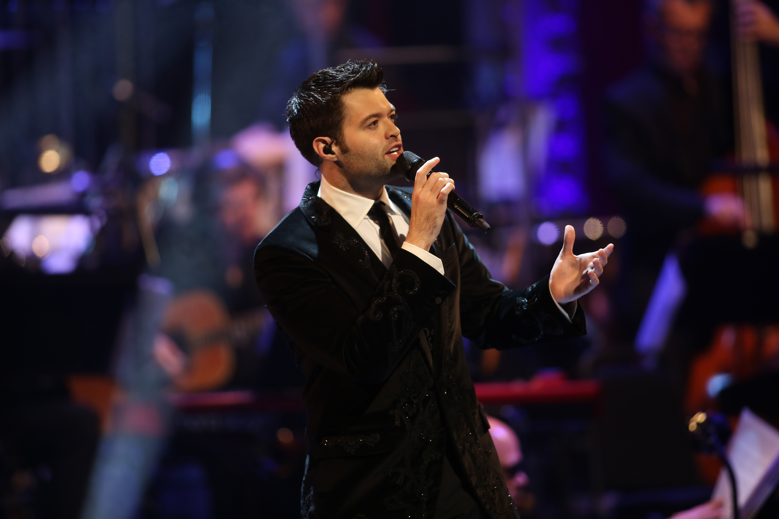 A 2014 photo of Eamonn McCrystal performing live in Belfast.